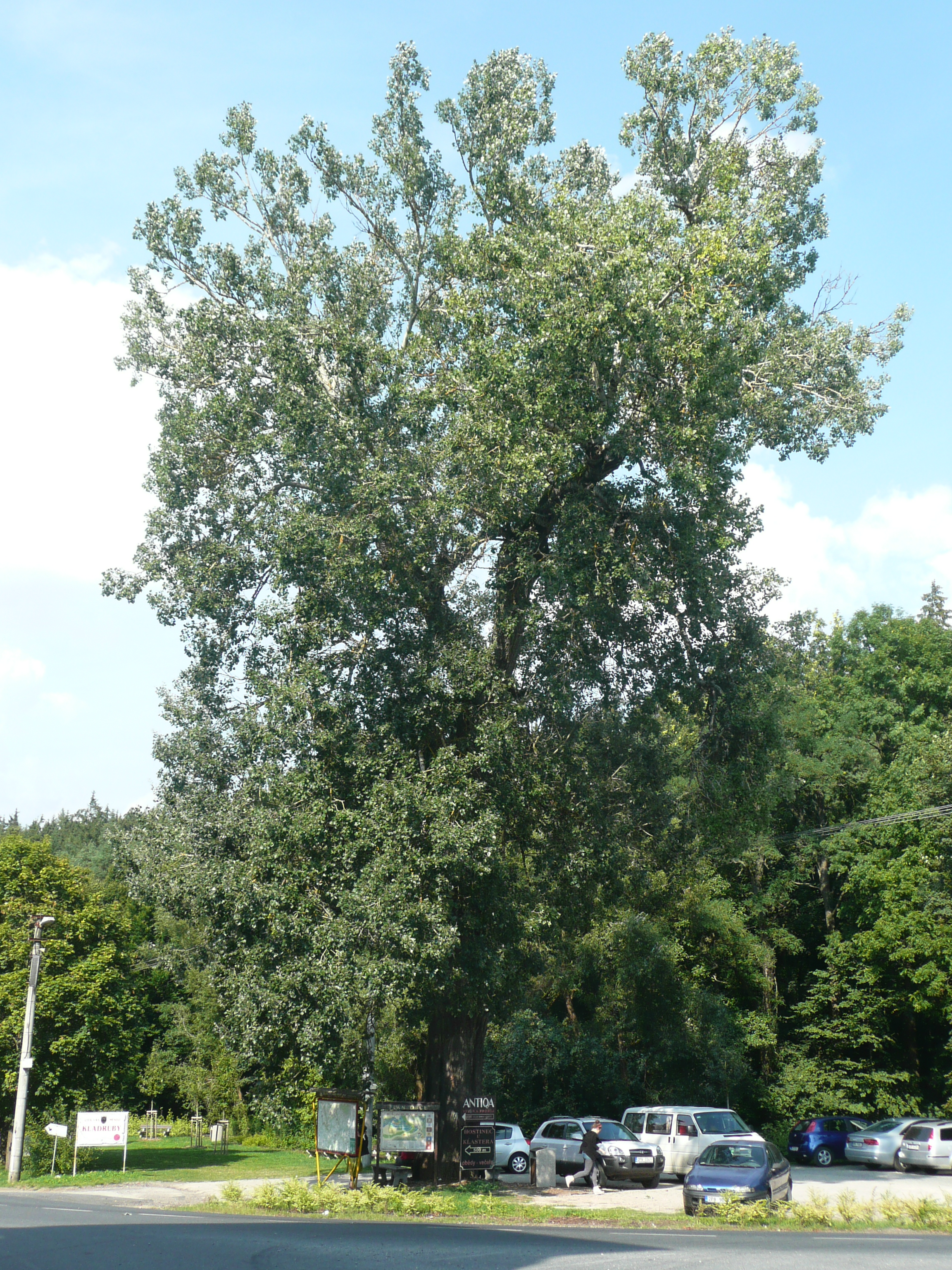 Famous tree Topol bílý v Pozorce in to the village of Pozorka in Kladrubech in Tachov District, Czech Republic